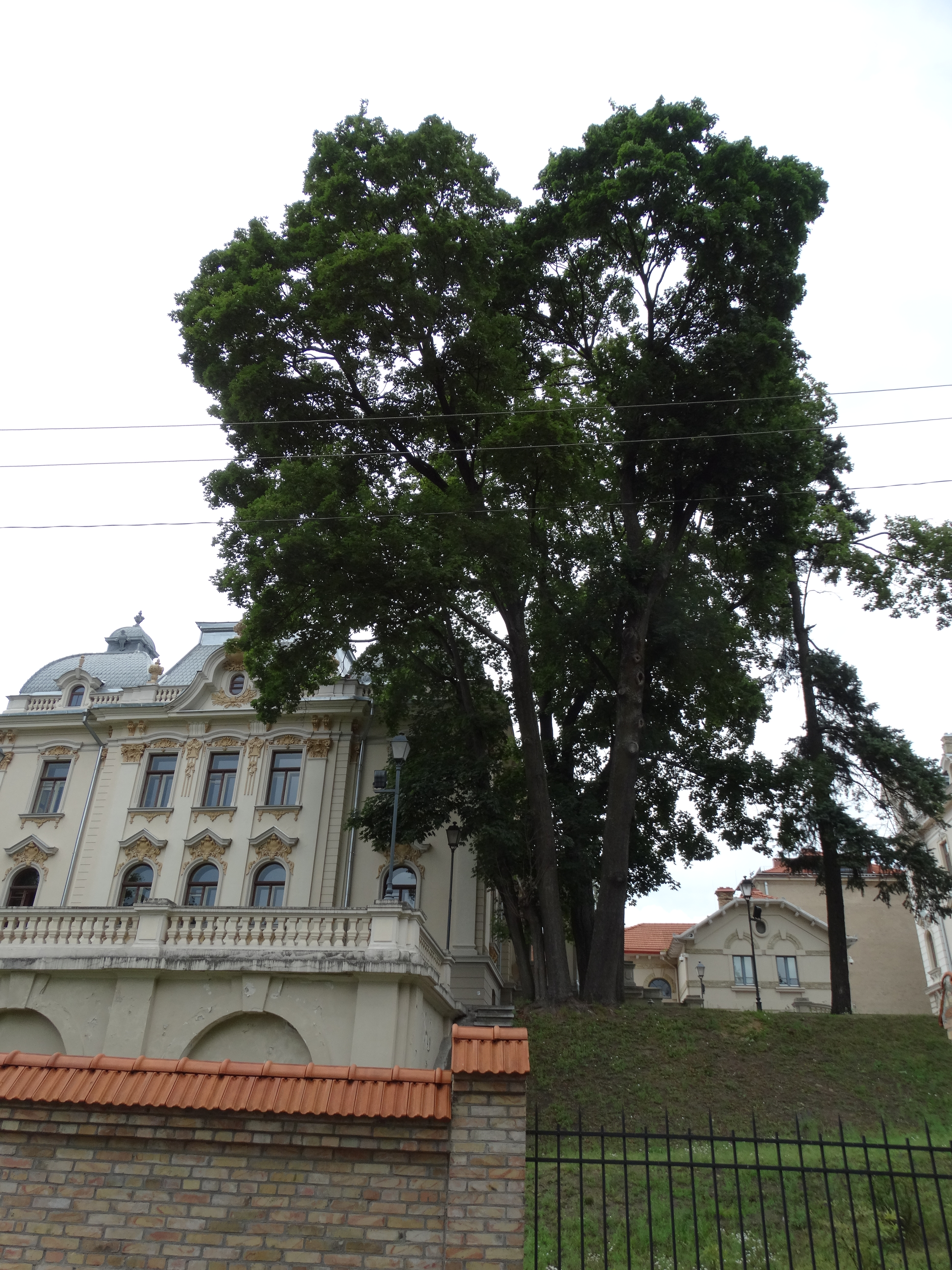 Eight Maple Circle by Vileišiai homestead, Vilnius, Lithuania